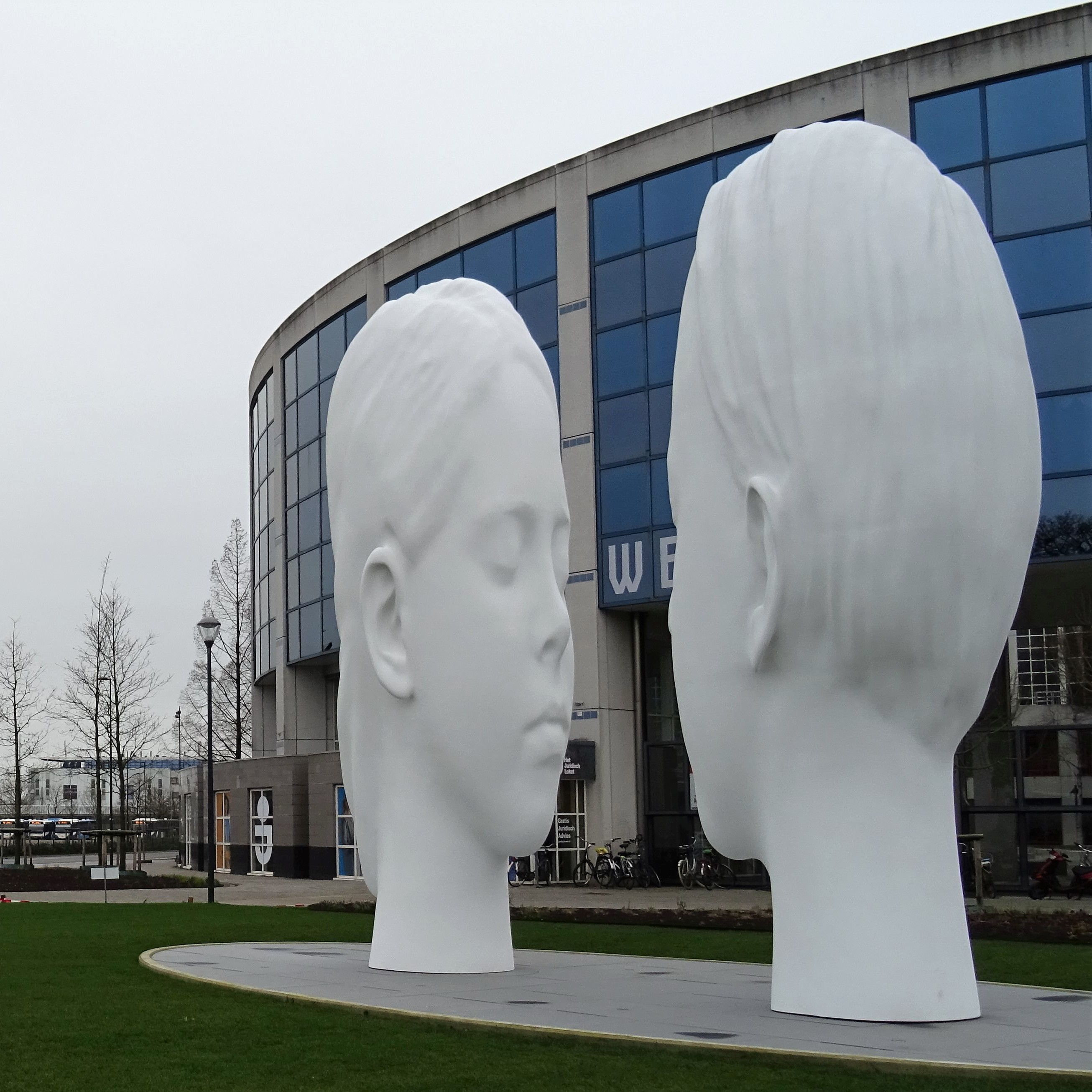 Love fontain in Leeuwarden (Jaume Plensa)